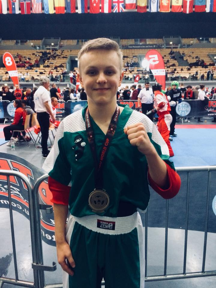 Austrian Classics 2019 World Cup WAKO